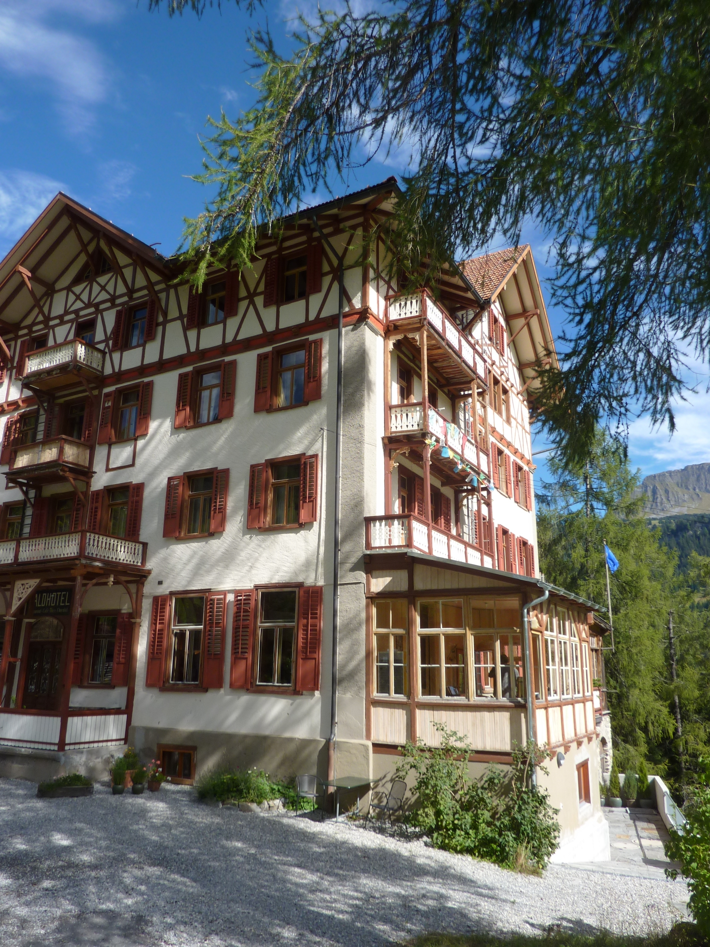 Buddhist and Meditation Centre Ganden Chökhor in Churwalden, Switzerland. Formerly "Waldhotel" Praschadier.